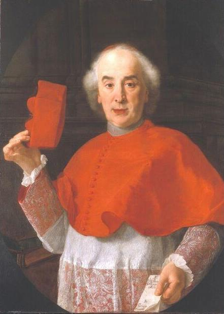 Giovanni Giacomo Millo, cardinal of the Roman Catholic Church